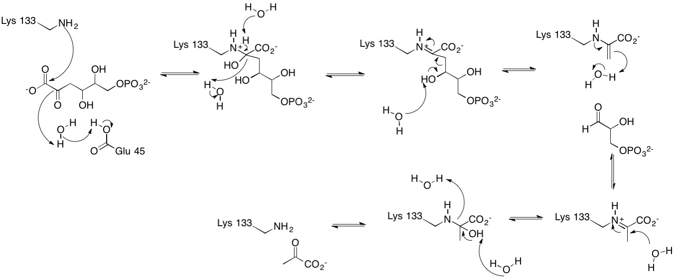 aldolase